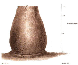 This is a water colour sketch made by Rev. John Swete of a prehistoric urn discovered in a barrow on Haldon Hill, Exeter following an excavation carried out in 1780. The urn is 13 inches high, 10 in diameter at the mouth and 5 at the bottom and made of unbaked clay, smoked, and discoloured by exposure to fire.